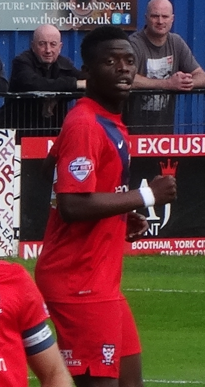 David Tutonda playing for York City against Hartlepool United at Bootham Crescent, York on 15 August 2015